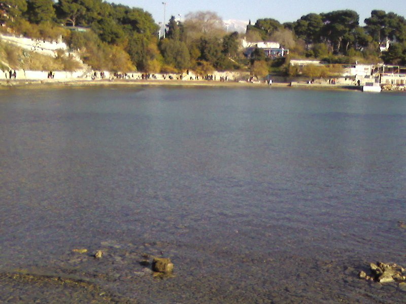 Picture of Firule bay, Split, Croatia